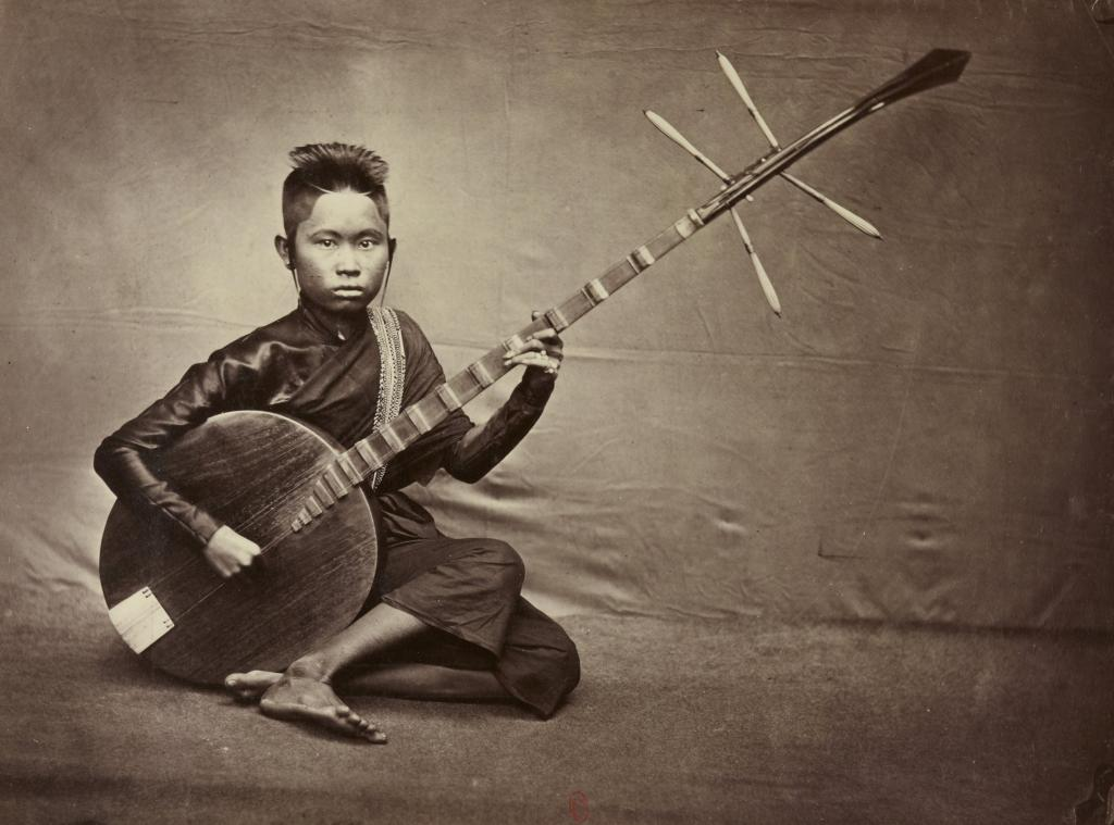 Portrait of a female musician at the Cambodian Royal Palace, 1880. Photo by Émile Gsell (1838-1879).